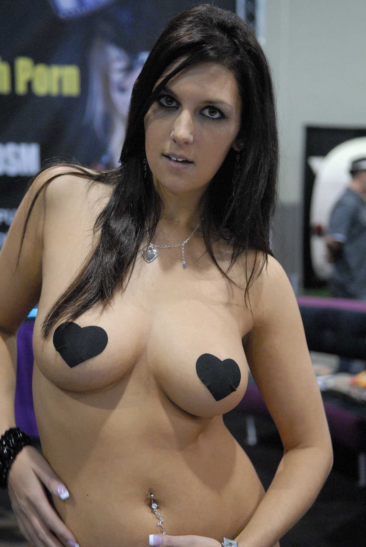 Audrina Hill @ AVN Adult Entertainment Expo 2010